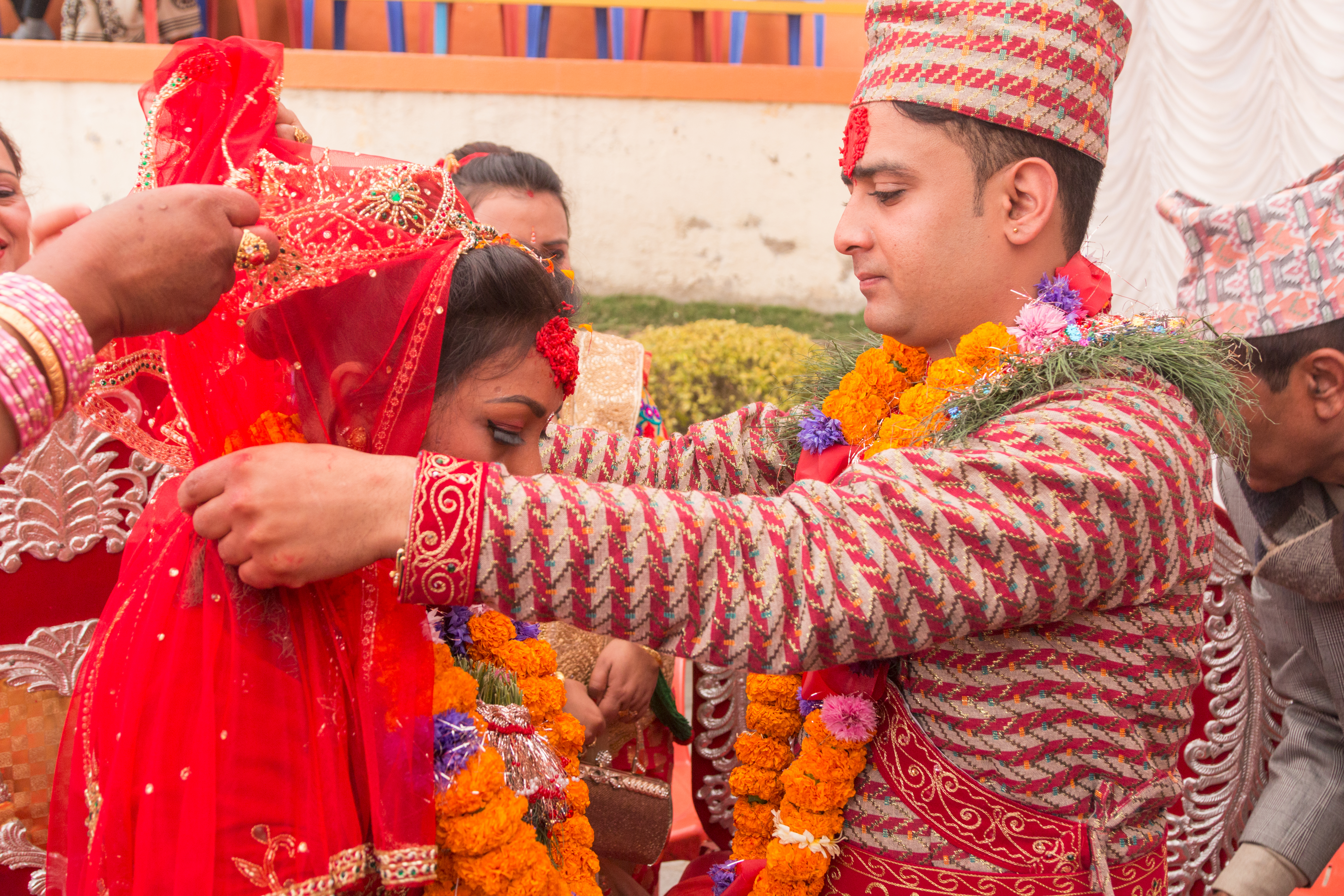 Hindu cultural marriage ceremony and its process.